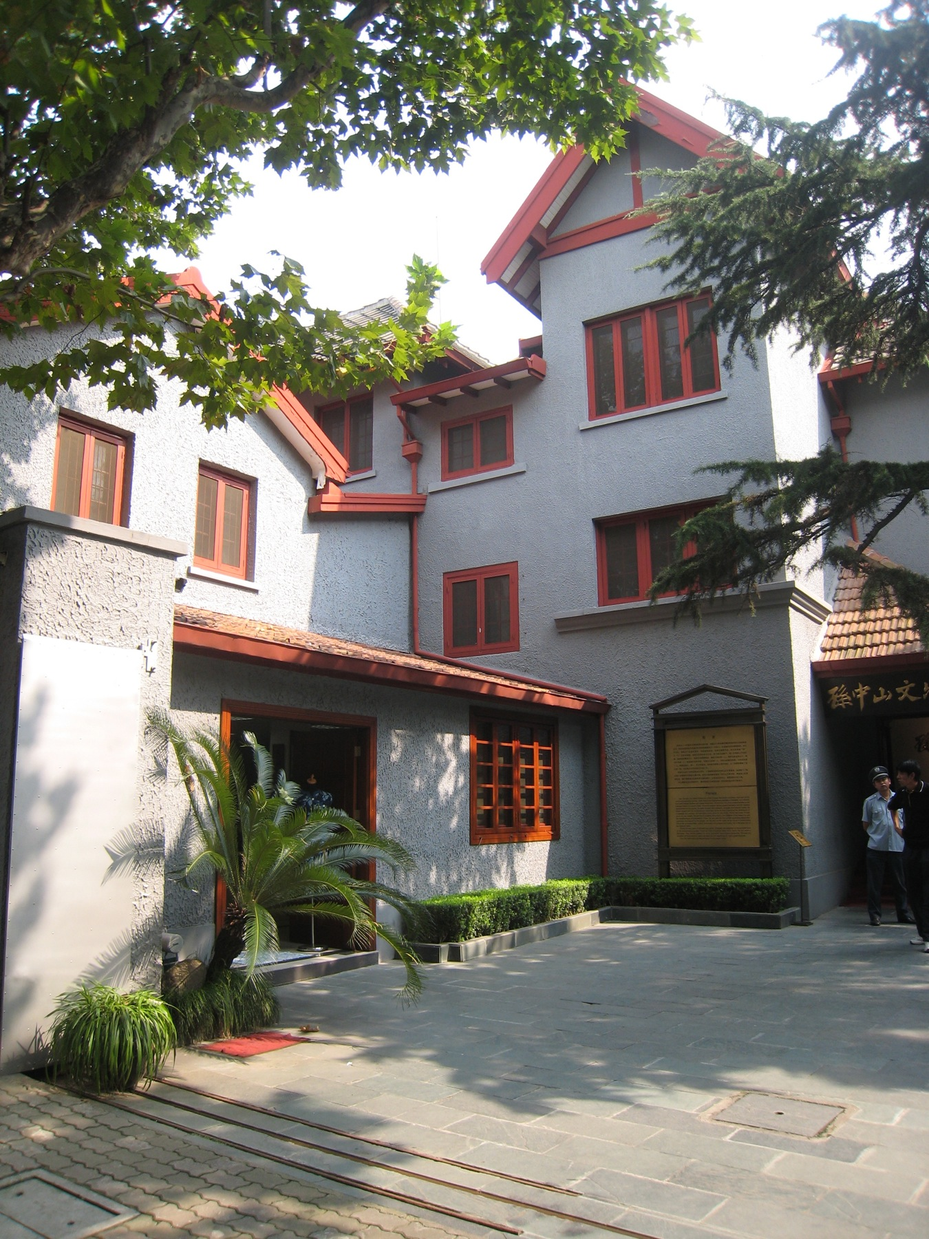 French Concession Area, Shanghai, China.